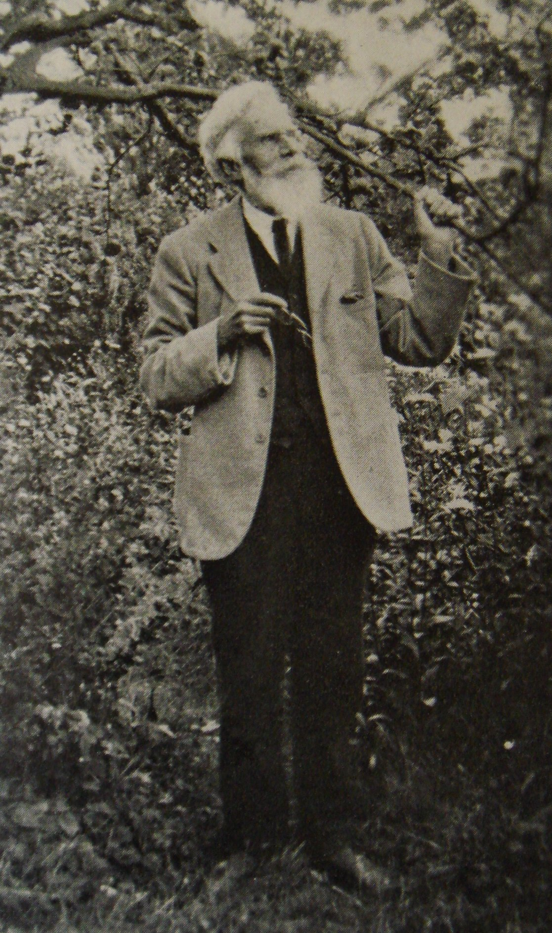 Havelock Ellis.